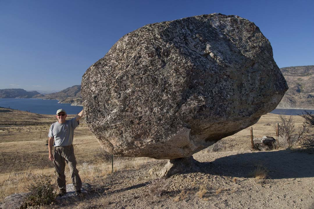 The large glacial erratic balancing rock near Omak Lake, Okanogan County, Washington, USA